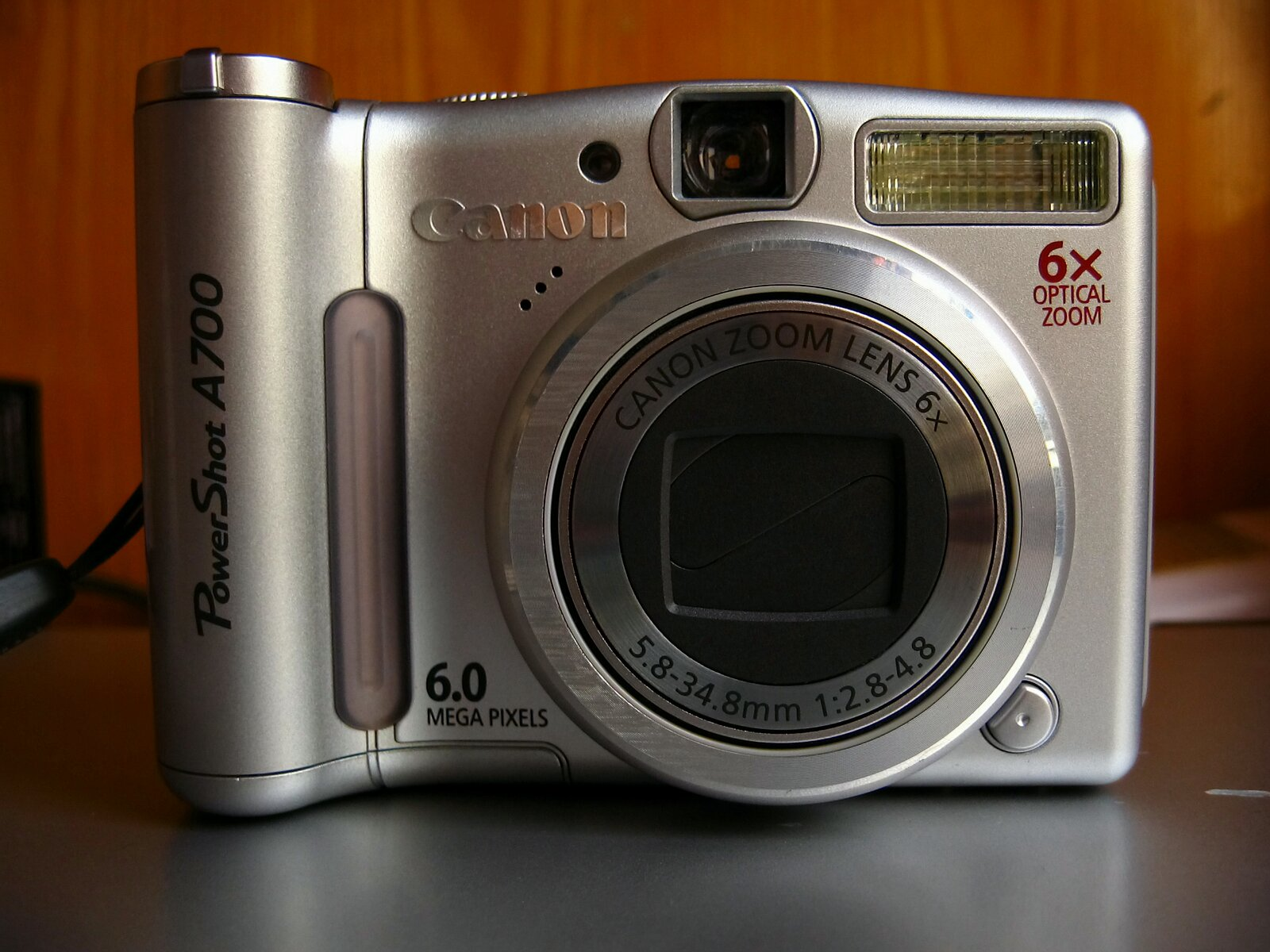 Canon PowerShot A700